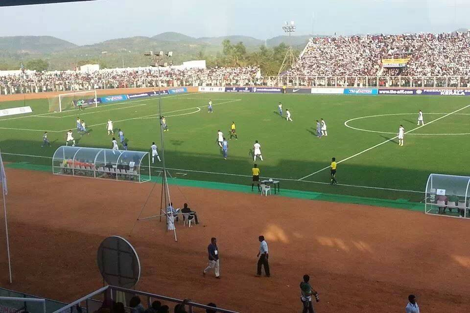 This is the picture of newly built Malappuram District Sports Complex Stadium,Manjeri,Kerala in India.